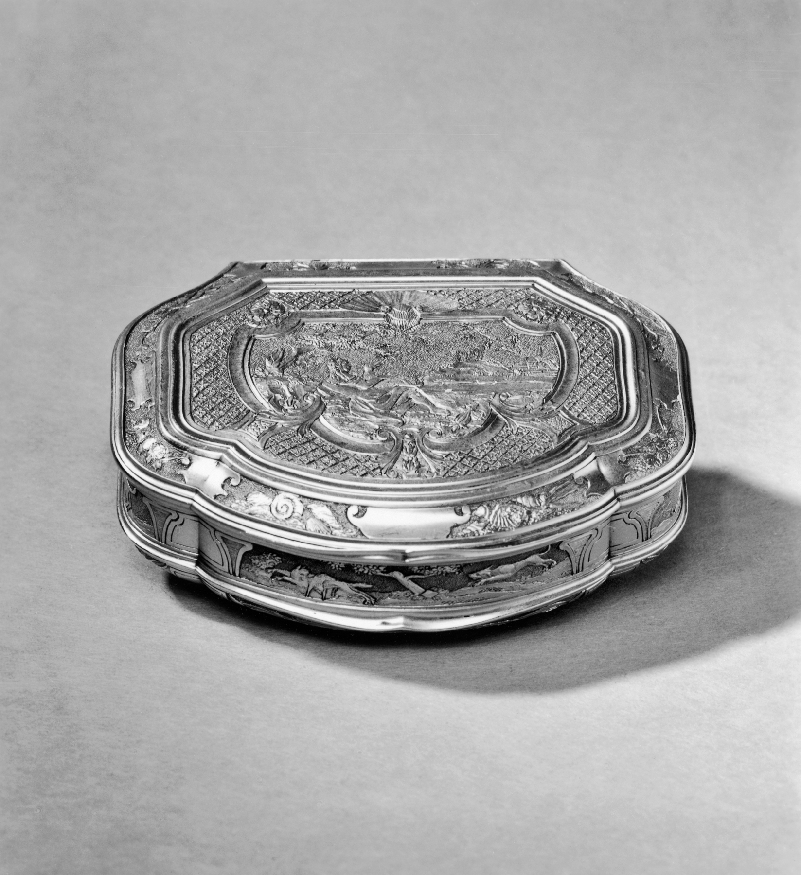 Louis XV (1710-1774) presented this box to the Grand Master of the Knights of Malta.